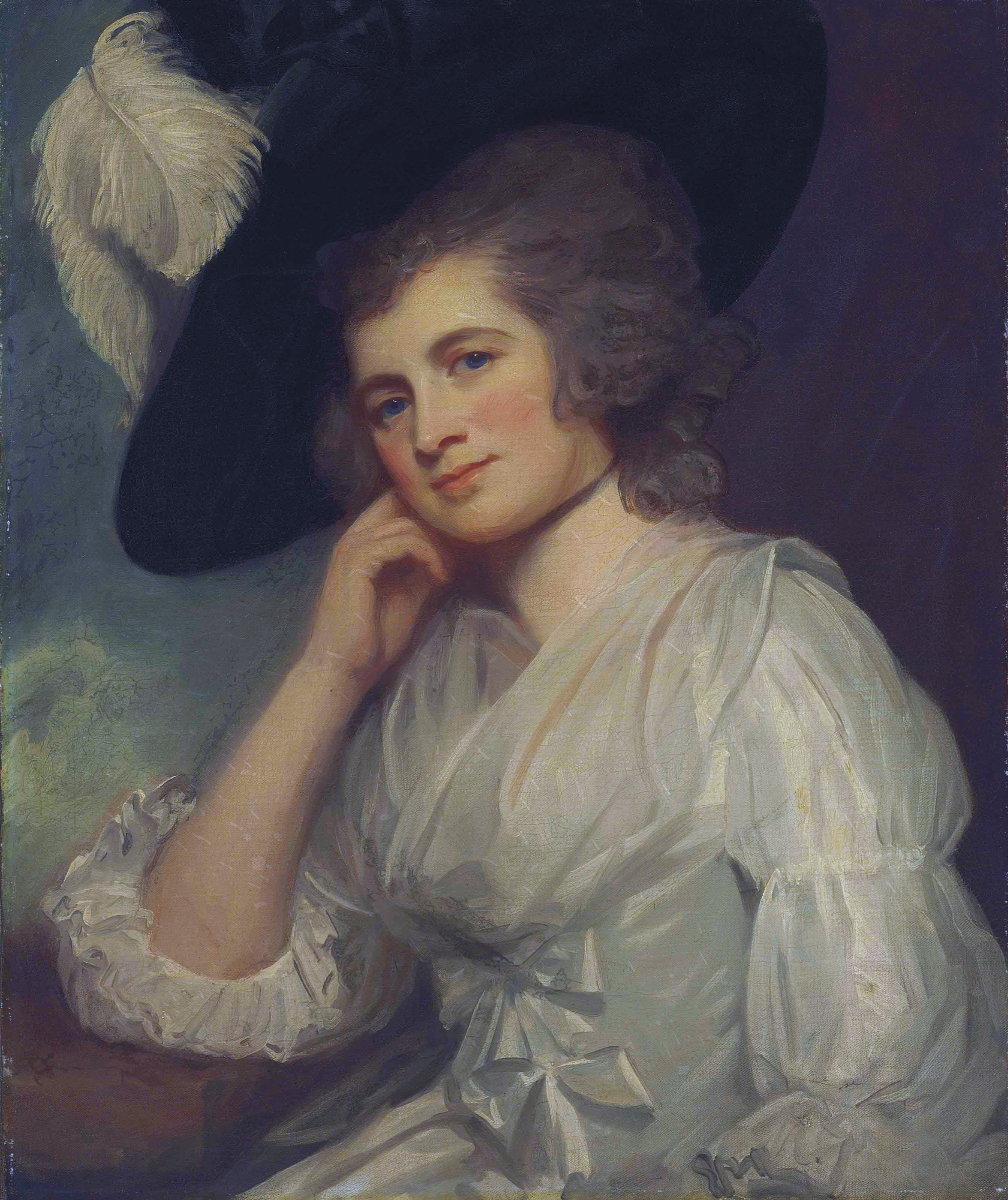 Laetitia à Court oil on canvas 76.2 x 63.5 cm